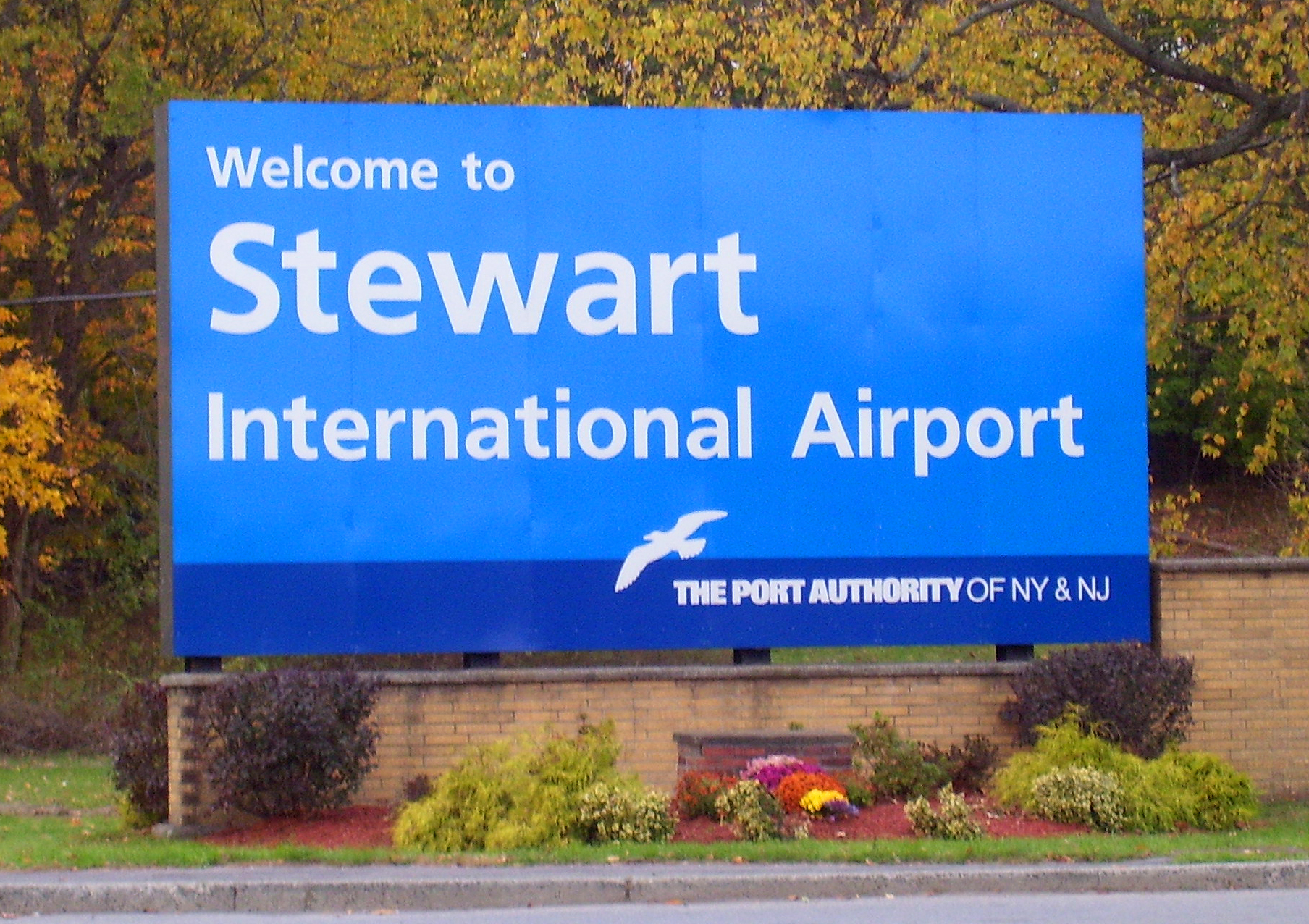 New sign for Stewart International Airport along NY 207 in New Windsor, NY, USA, put up in fall 2007 reflecting new management by Port Authority